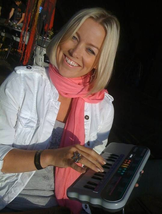 Composer and artist Hanne Sorvaag